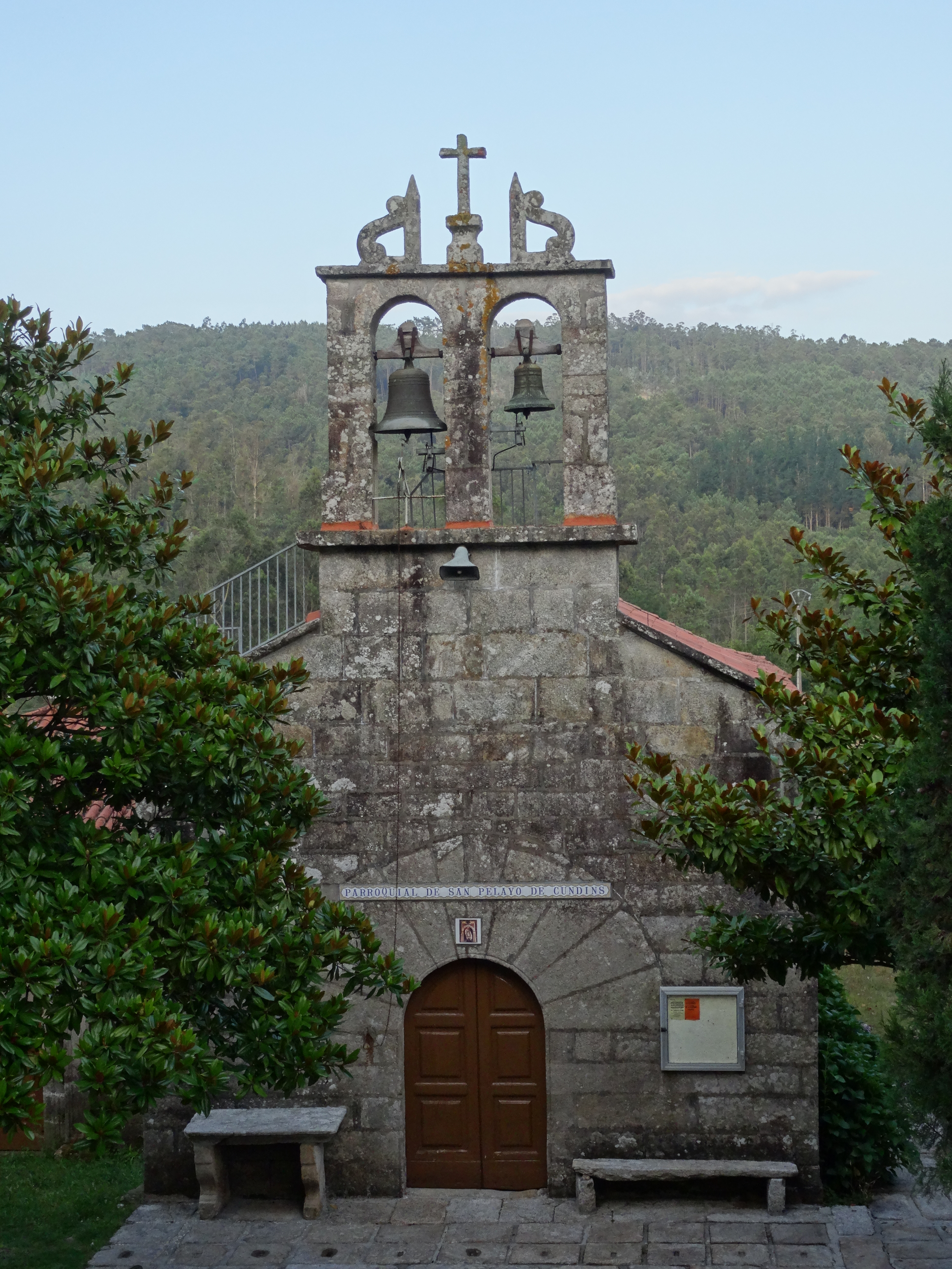 Church of Cundíns, Cabana de Bergantiños (Spain)